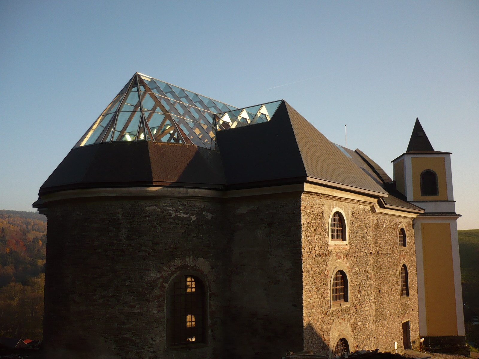 Church in Neratov, Czech Republic